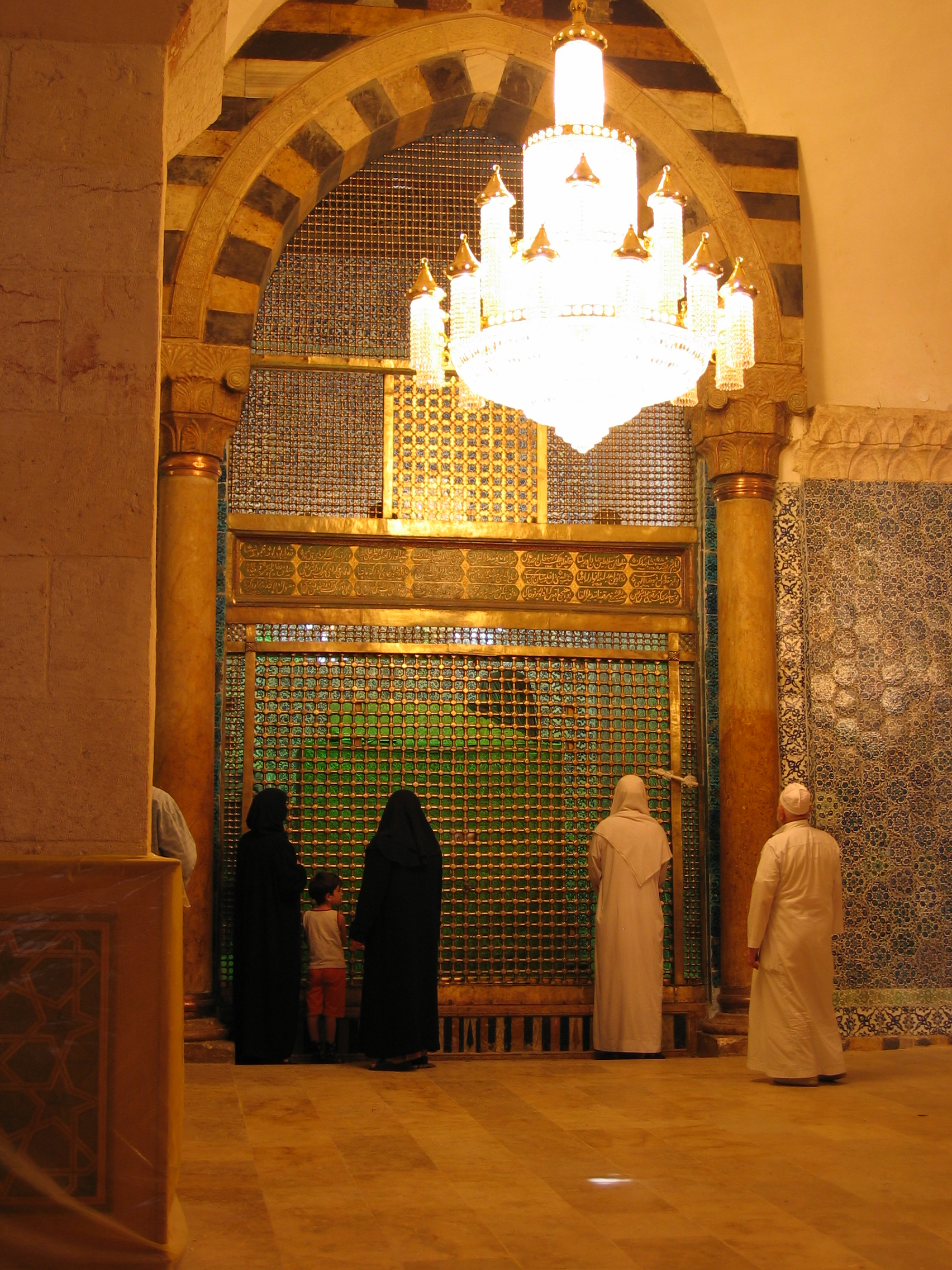 Description: Shrine in the Omayad Mosque of Aleppo Syria